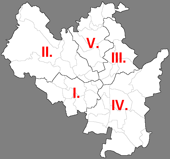 City quarters of Brno in 1976–1990